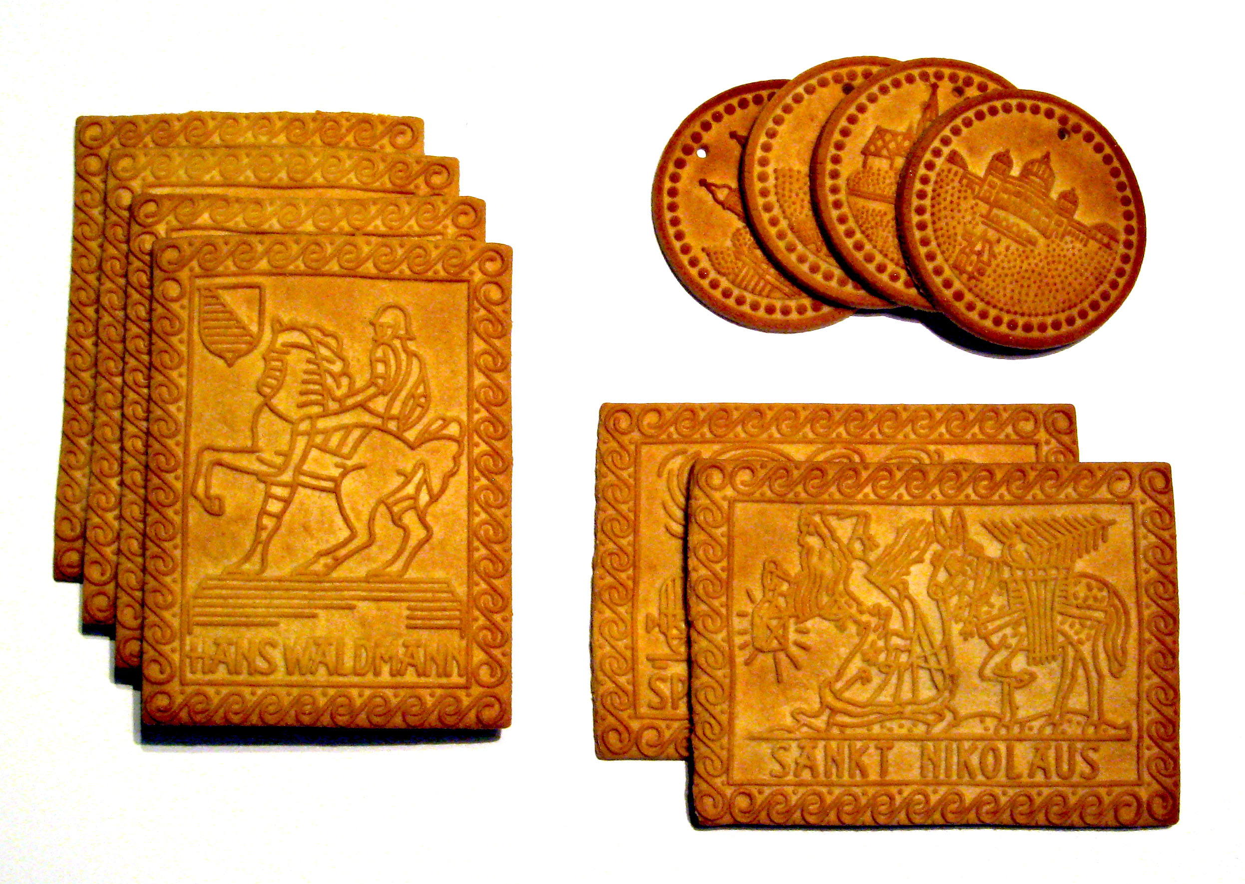 Tirggel cookies as sold in 2008 by Swiss retailer Migros.